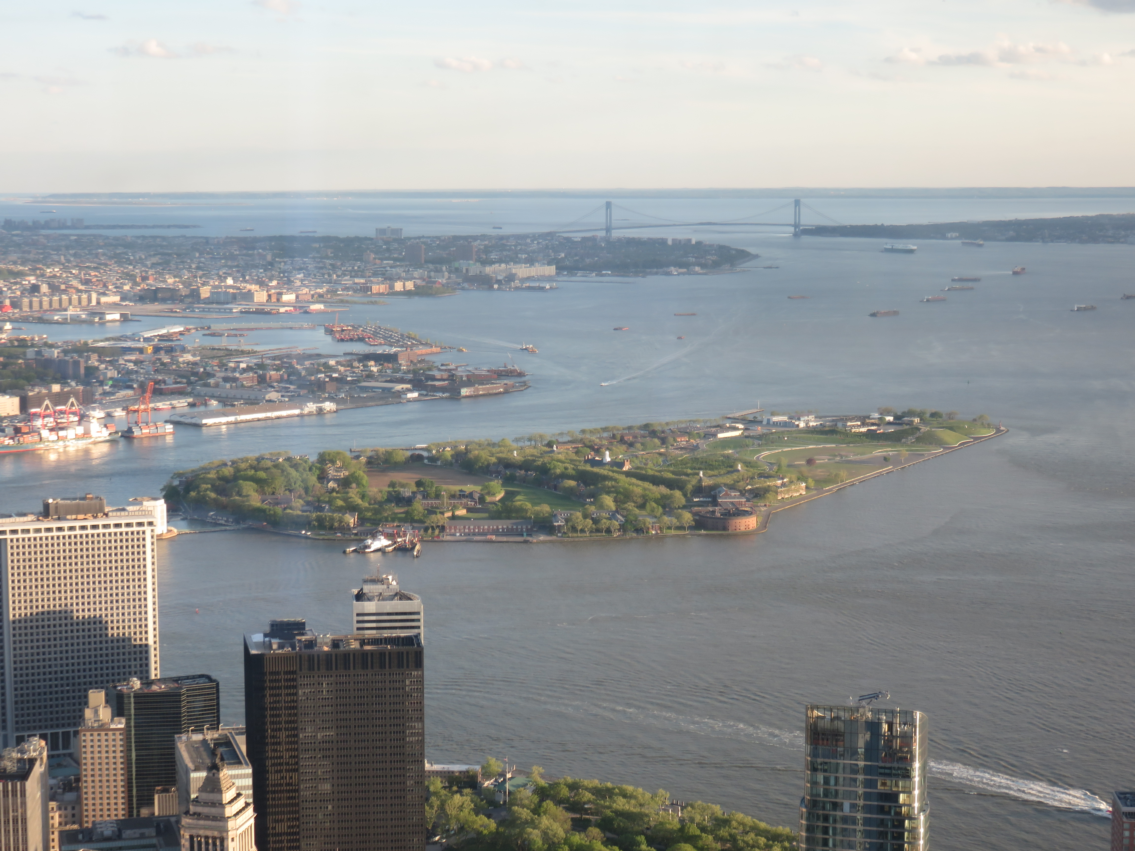 Governors Island and the Verrazano-Narrows Bridge from One World Observatory in 2017